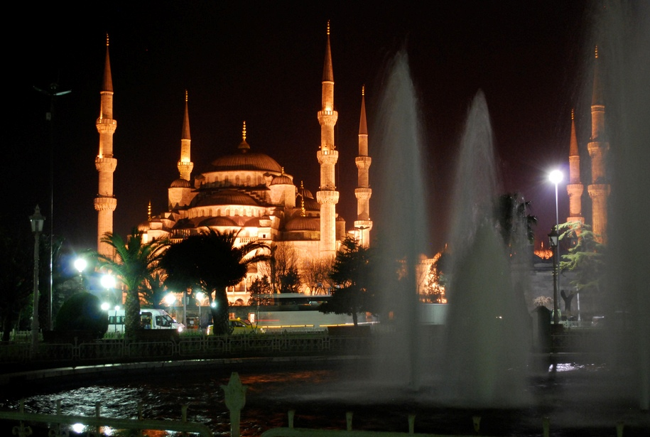 Blue Mosque at Night